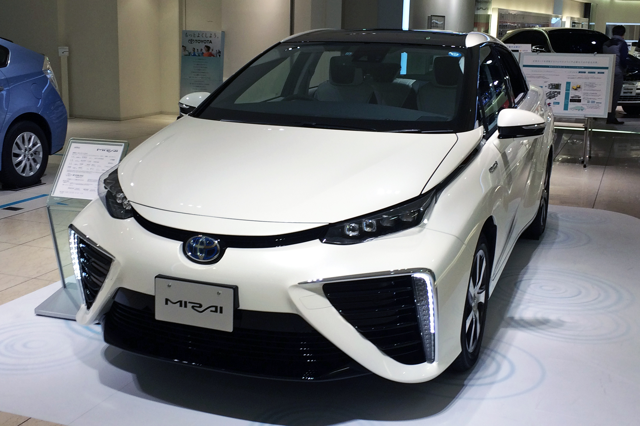 2015 Toyota Mirai fuel cell sedan (right-hand side Japanese version)